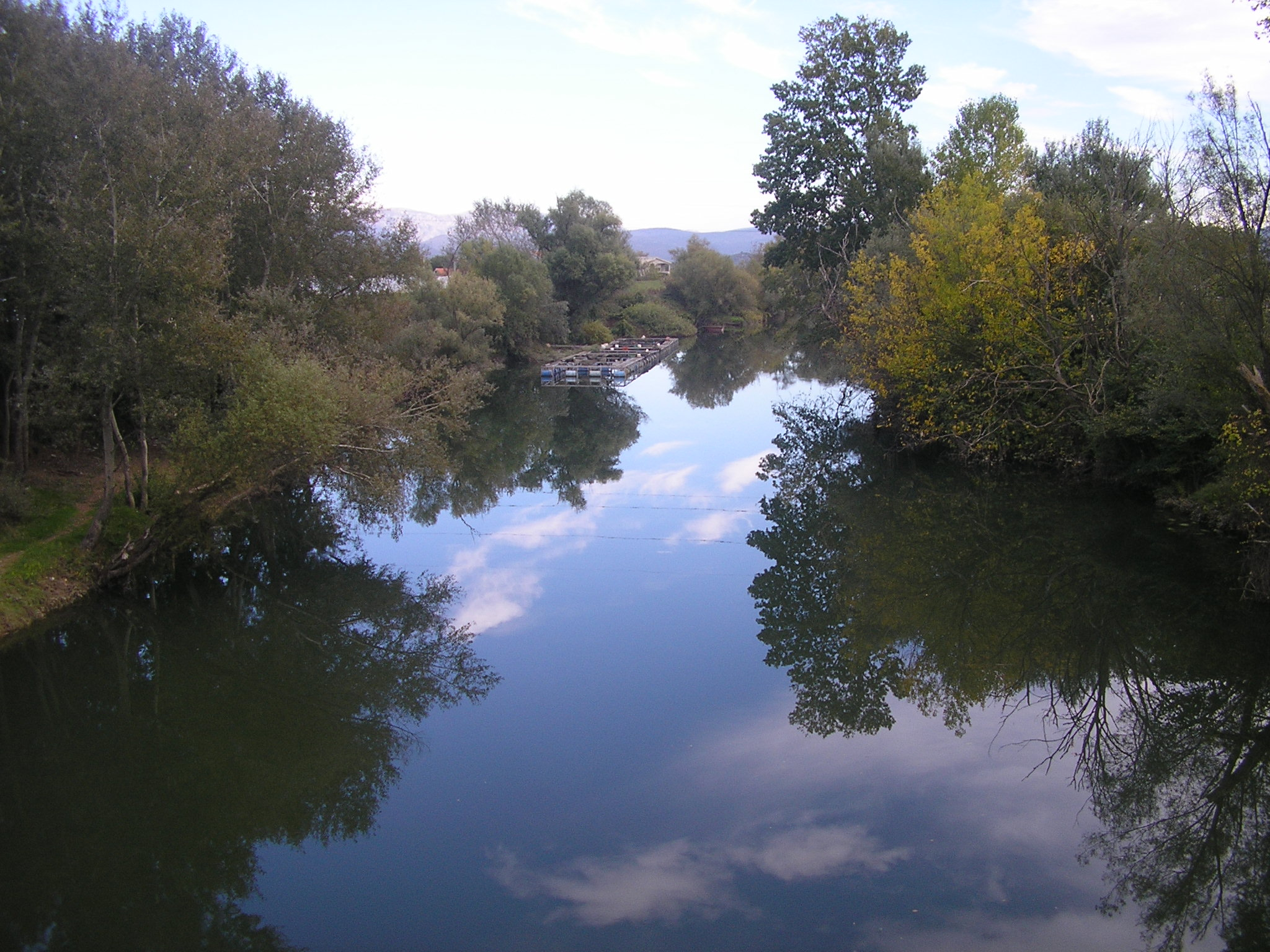 Krupa River near Dračevo